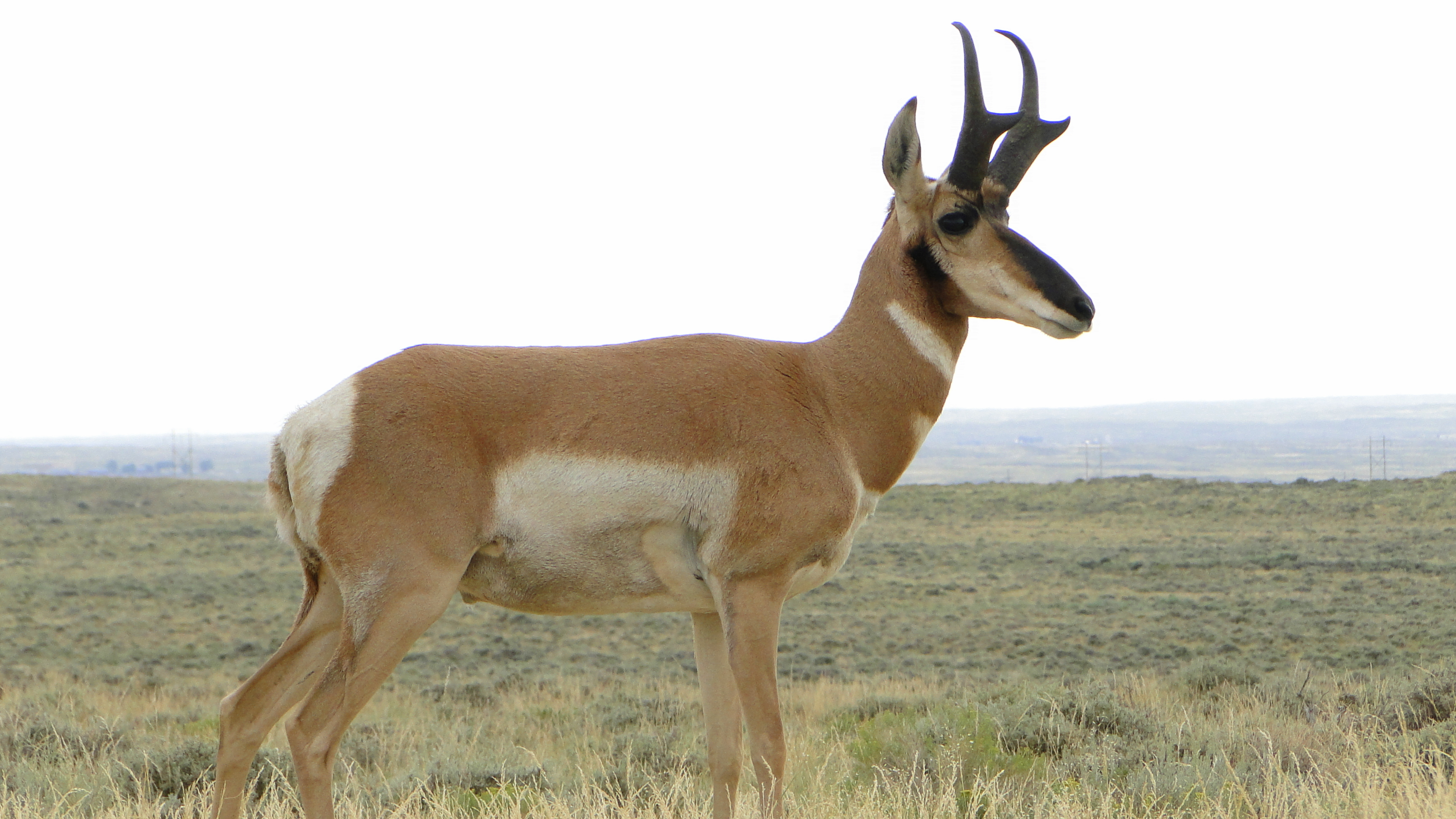 Pronghorn. Red Desert (Wyoming)